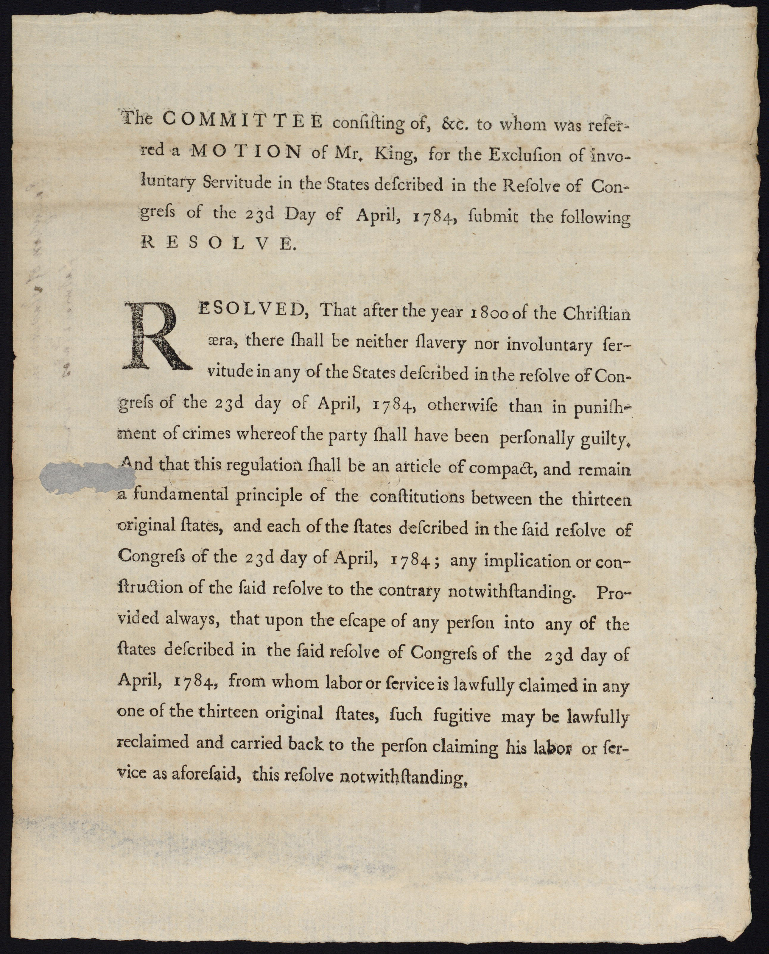 Resolution to prohibit slavery and indentured servitude under the Ordinance of 1784 (resolution failed)